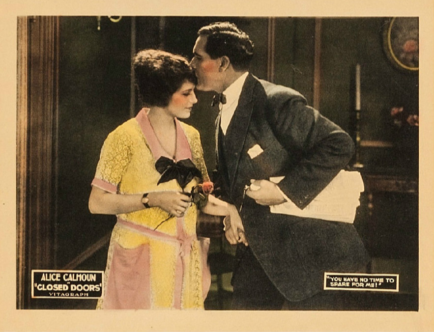 Lobby card for the 1921 film Closed Doors with Alice Calhoun and Harry C. Browne.